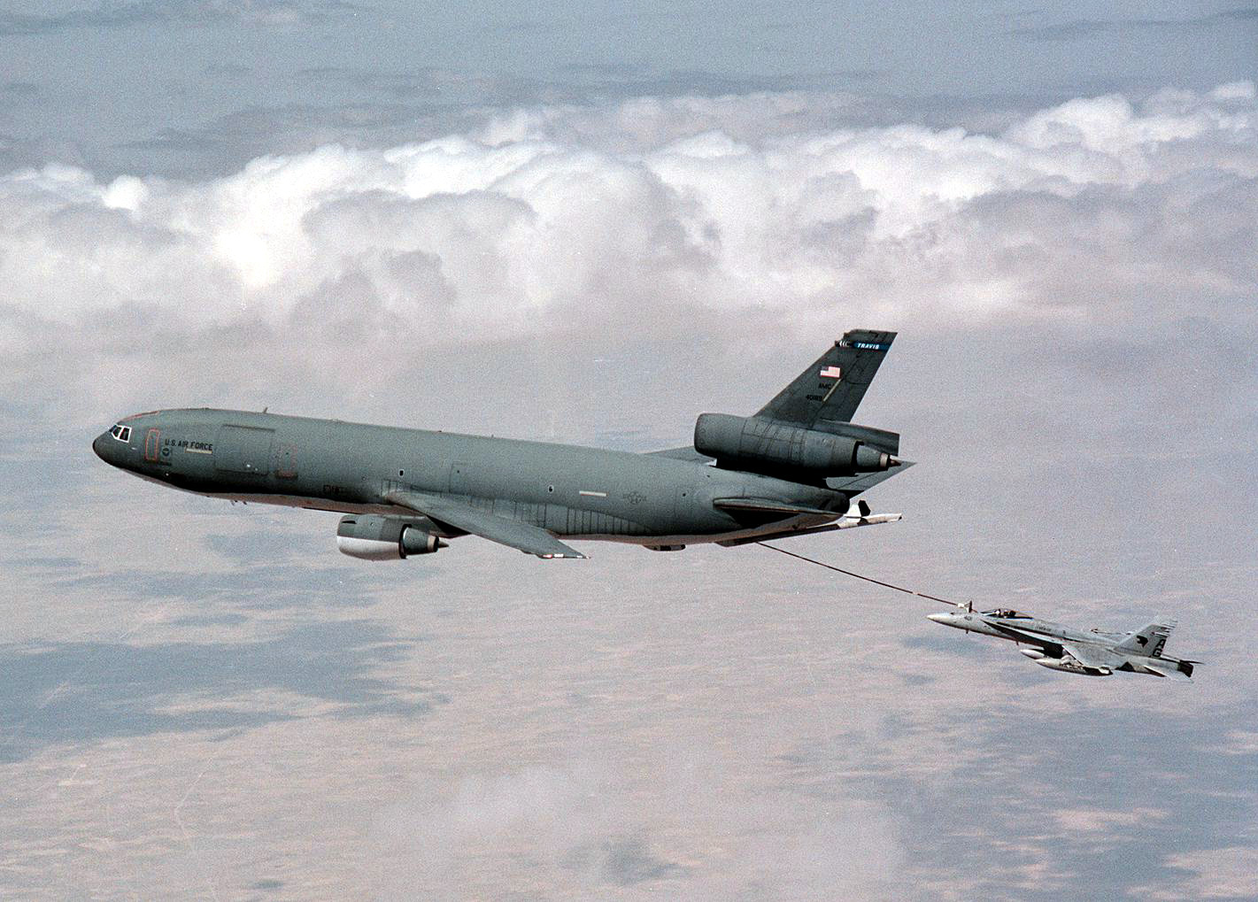 A U.S. Air Force KC-10 Extender refuels a U.S. Navy F/A-18C Hornet as it flies a mission in the skies over Kuwait on April 3, 1996. The Hornet was flying from the deck of aircraft carrier USS George Washington (CVN 73). The George Washington and its battle group are operating in the Arabian Gulf where they are conducting air patrols in support of Operation Southern Watch. Southern Watch is the U.S. and coalition enforcement of the no-fly-zone over Southern Iraq. The Extender is deployed from Travis Air Force Base, Calif. The Hornet is from Strike Fighter Squadron 131.